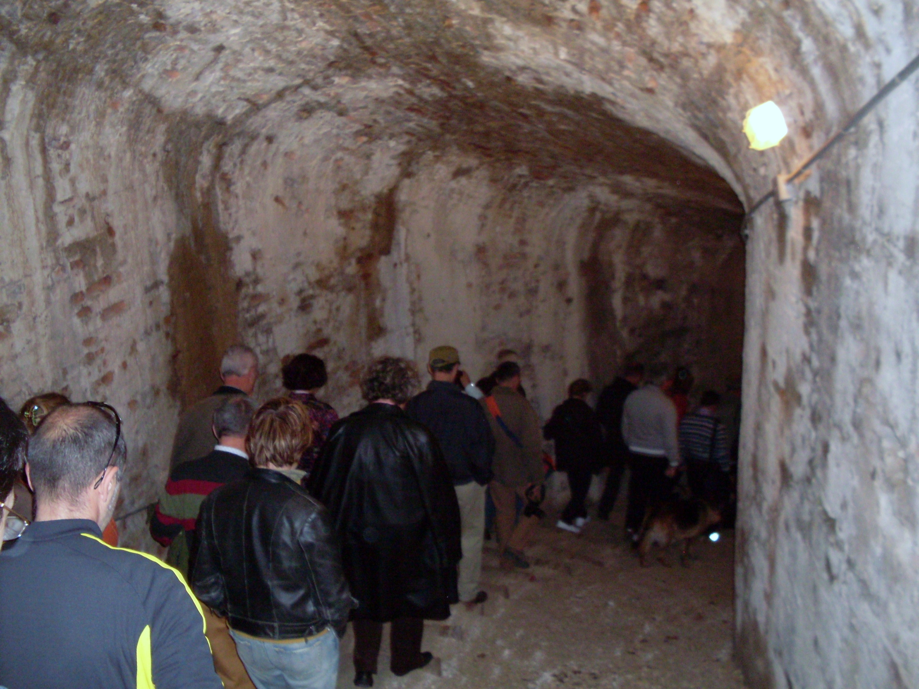 Italy Ancona Fort Cappuccini - underground corridors